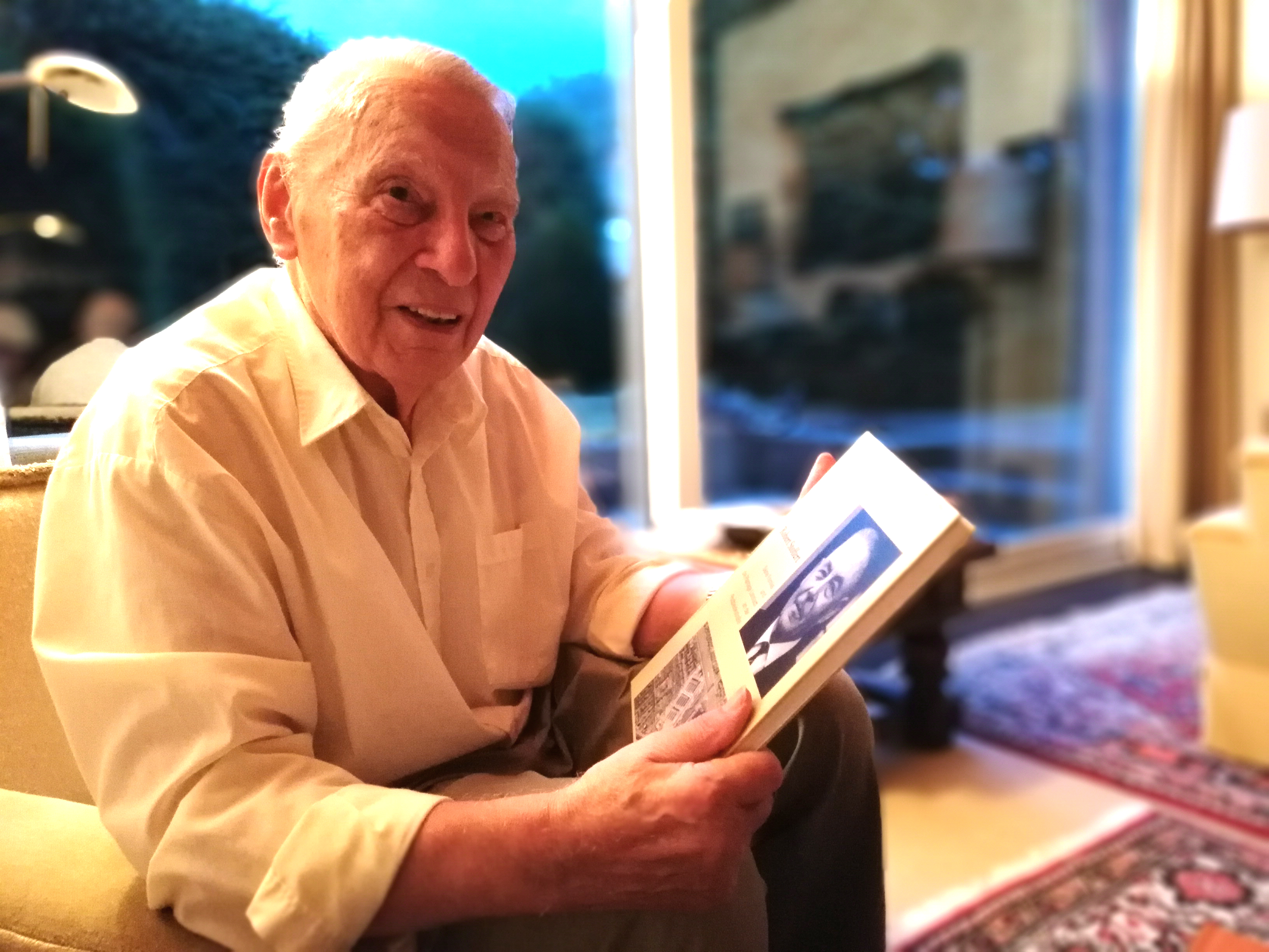 Der emeritierte Professor für Gartenbau und Gartenbauökonomie und vielfache Buchautor insbesondere zur Geschichte des - heute hannoverschen Stadtteils - Bothfeld, Gerhard Stoffert, hier auf dem Sofa in seiner Wohnung kurz vor seinem 92. Geburtstag ...